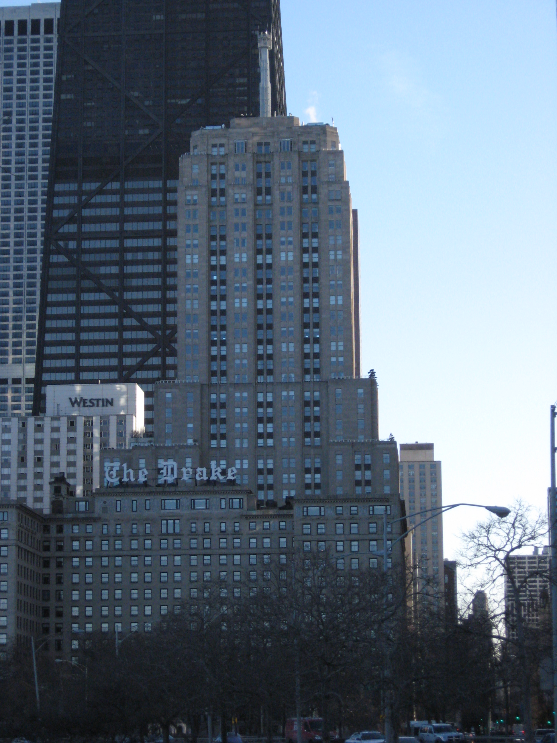 Palmolive Building, former Playboy Building